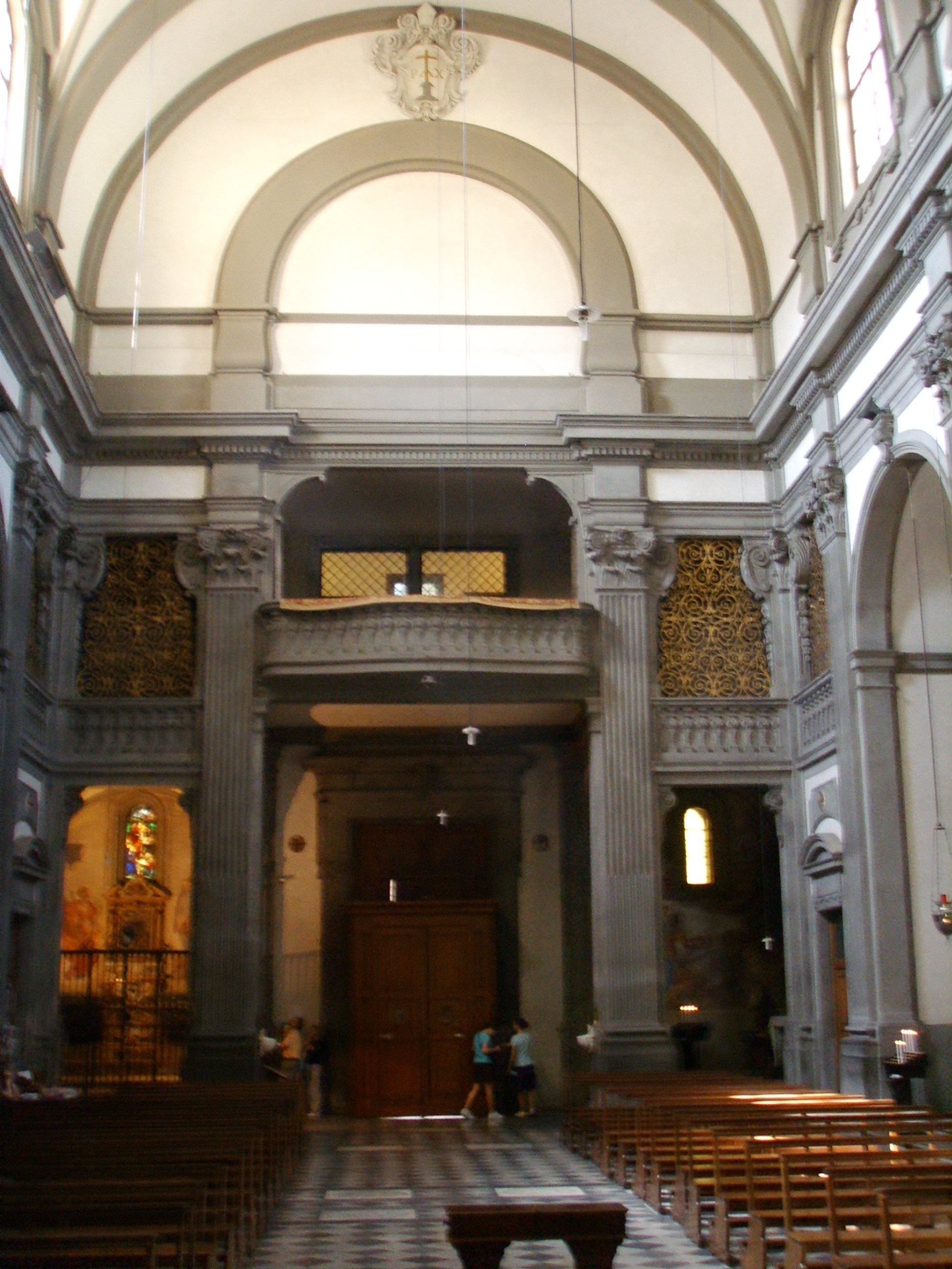 Santa Felicita church, inside view, in Florence Italy